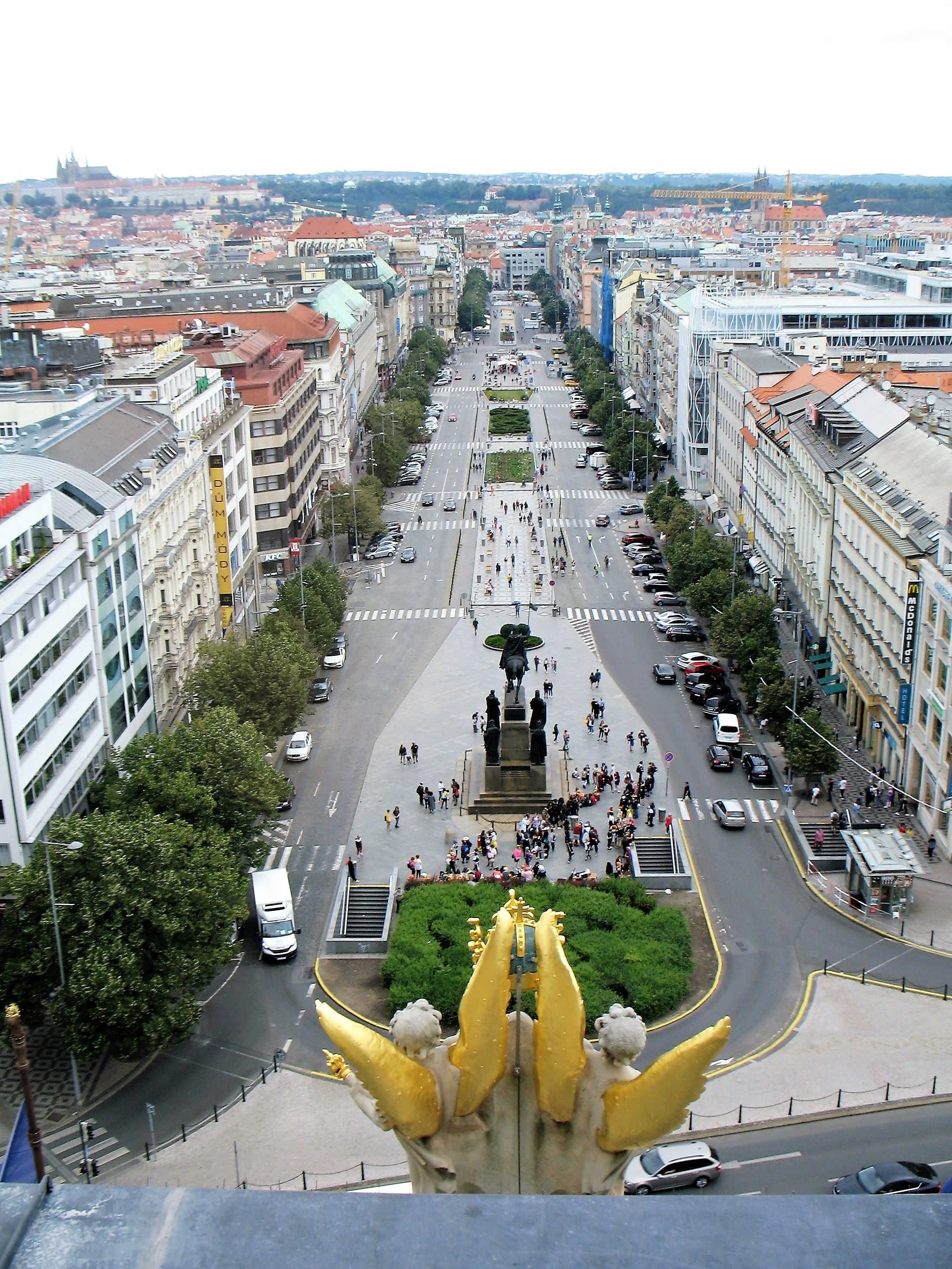 Views from dome of National museum in Prague